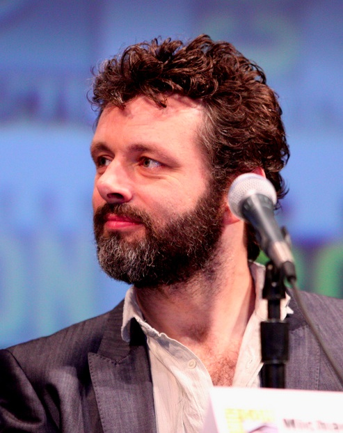 Michael Sheen on the Tron: Legacy panel at the 2010 San Diego Comic Con in San Diego, California.